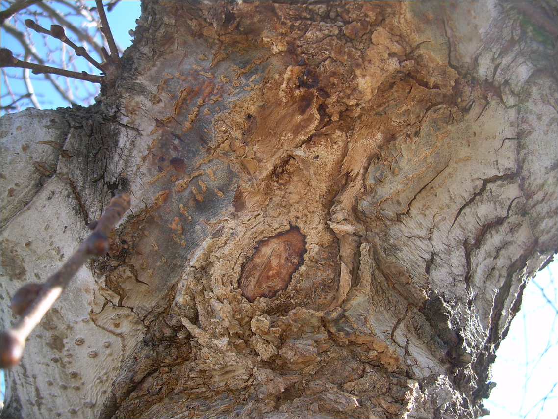 Slime flux on a Campordown elm (Ulmus glabra Huds. cv. 'Camperdownii') caused by Erwinia carotovora.